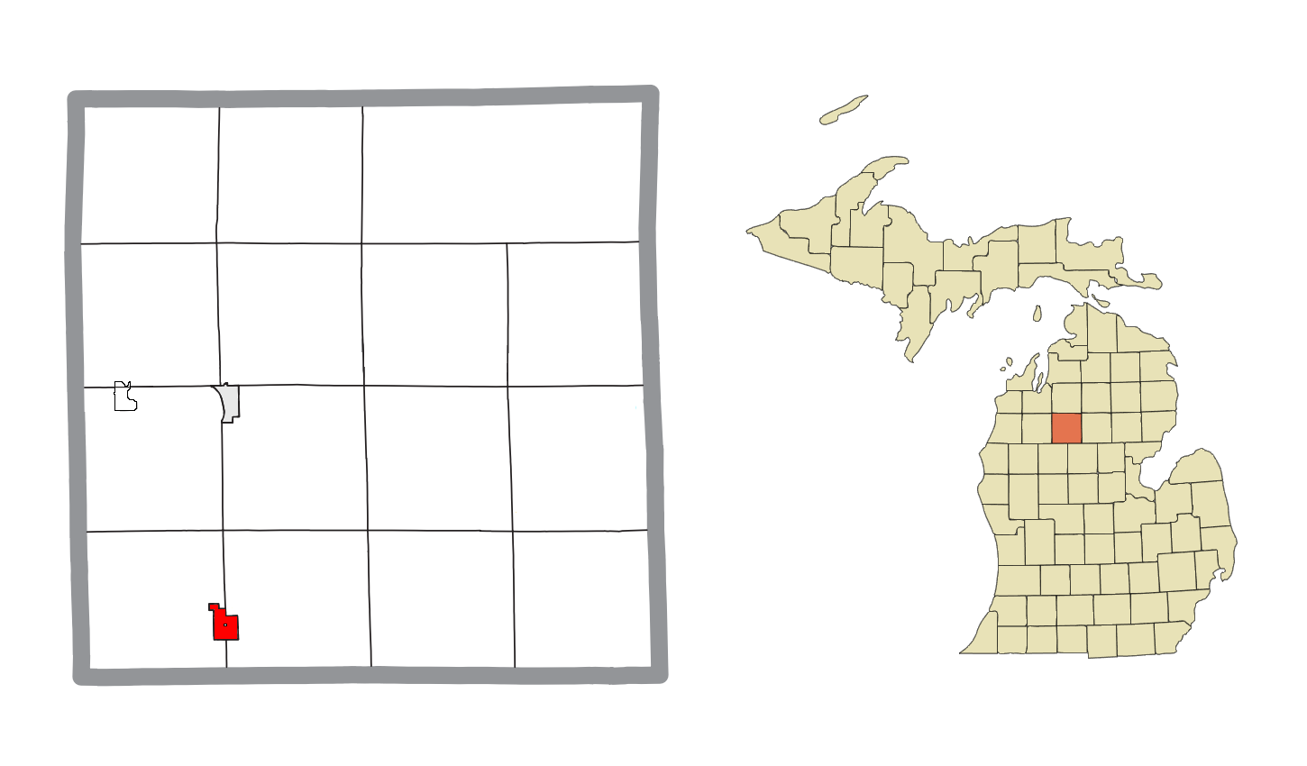 McBain, MI